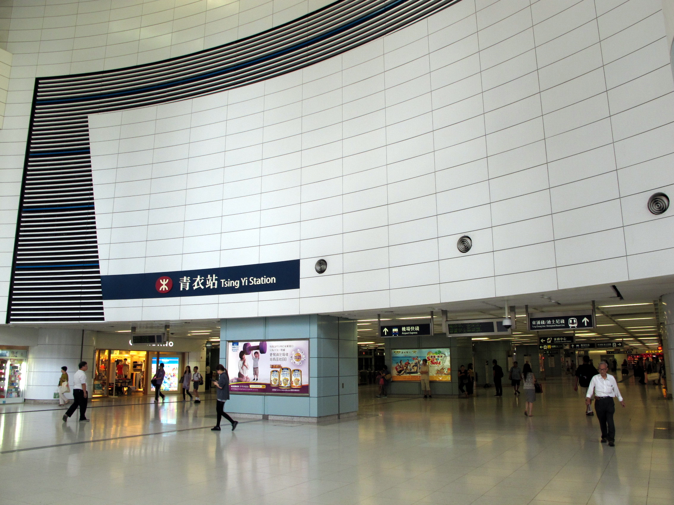 Tsing Yi Station Enterance